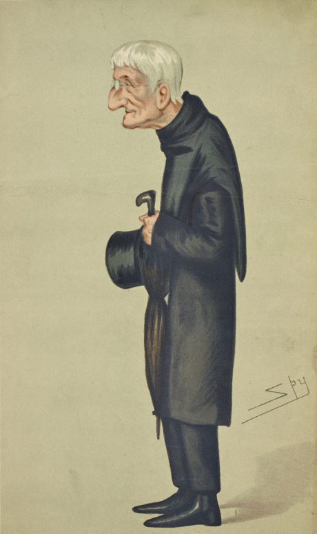 A chromolithograph, published in Vanity Fair 20 January 1877. Men of the Day. No. 145. “Tracts for the times.” Caricature by Sir Leslie Ward.